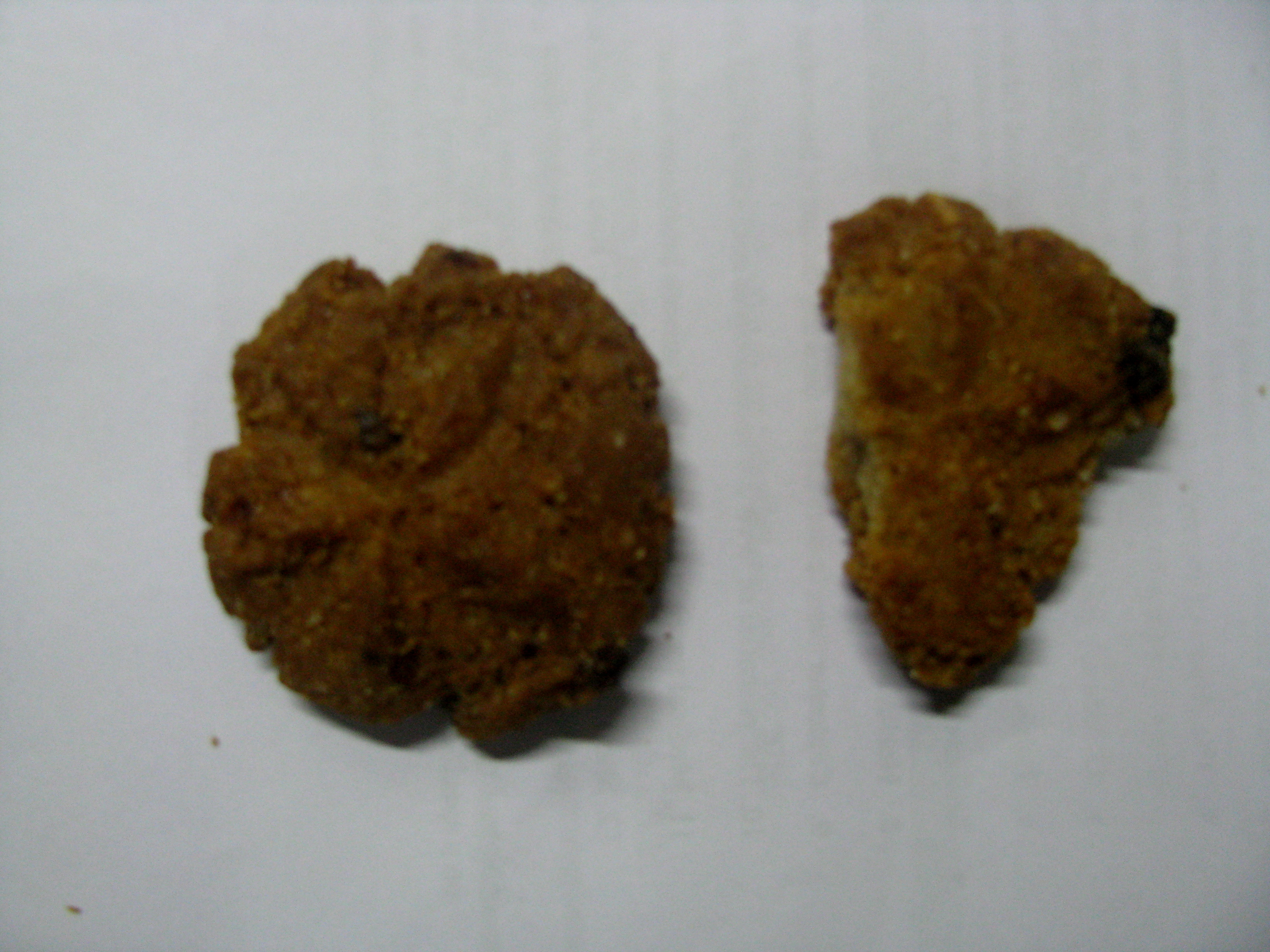 thekua image